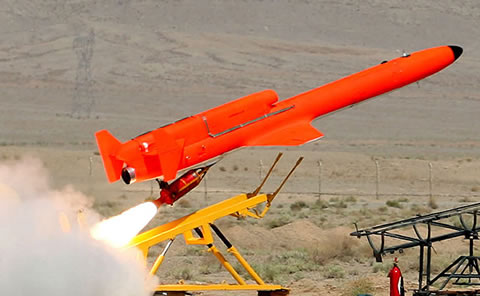 Iranian Karrar UAV makes a Rocket Assist Take-Off (RATO)